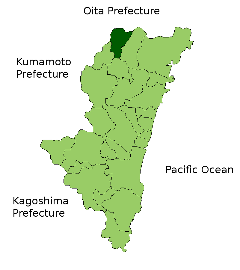 Location Map of Takachiho in Miyazaki Prefecture, Japan